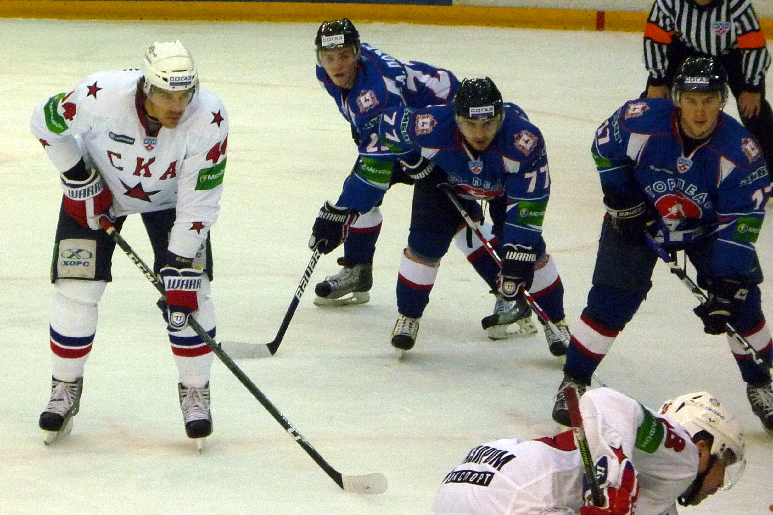 Evgeny Artyukhin (white, 44), Alexei Potapov (blue, 24), Alexander Yevseyenkov (blue, 77) and Ilya Krikunov (blue, 17)